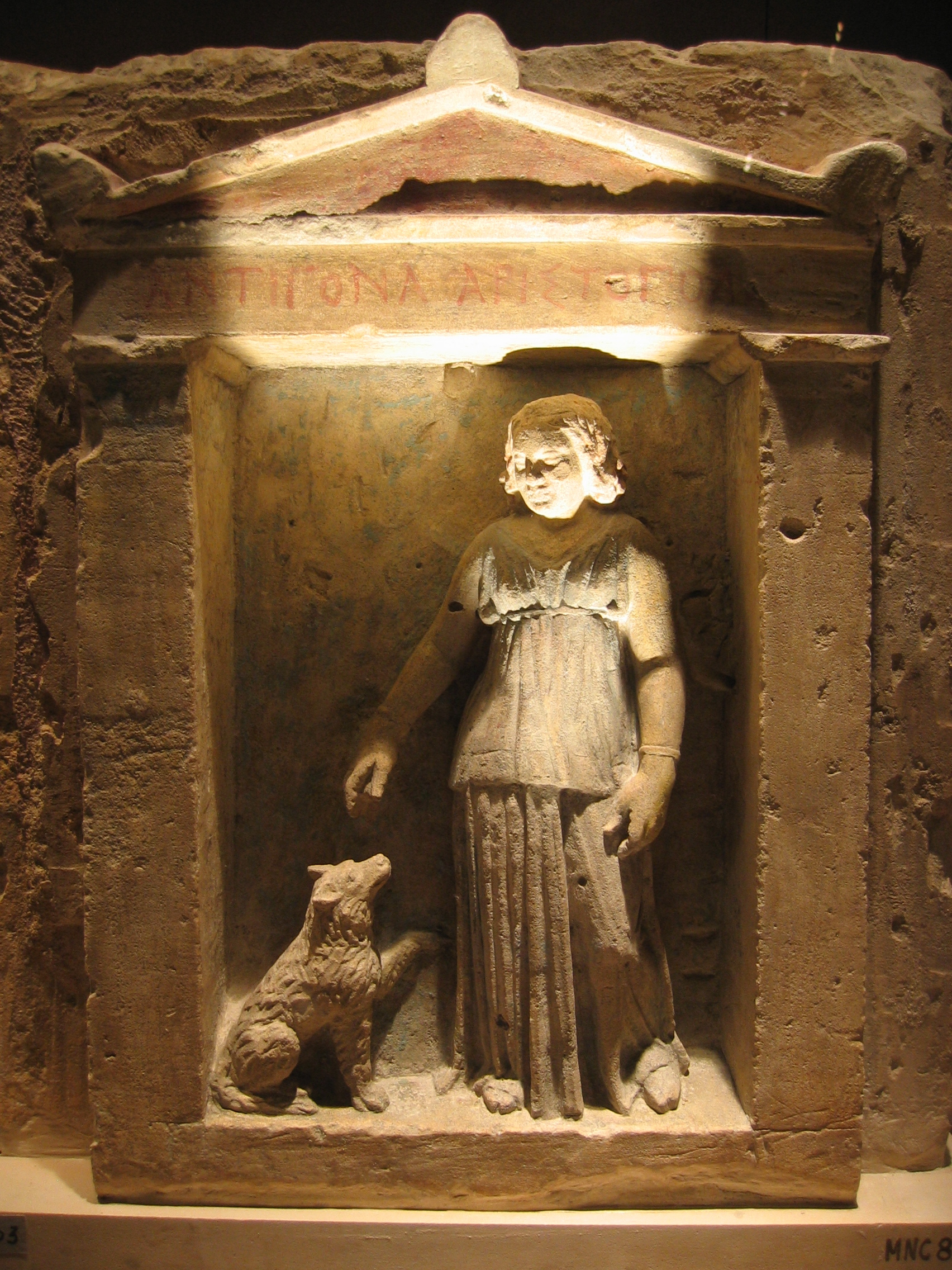 Funerary loculus slab bearing the name of Antigona and Aristopolis (perhaps added later), representing the young girl and her dog (probably a Maltese). Found in 1885 in the necropolis of Hadra in Alexandria, Egypt.